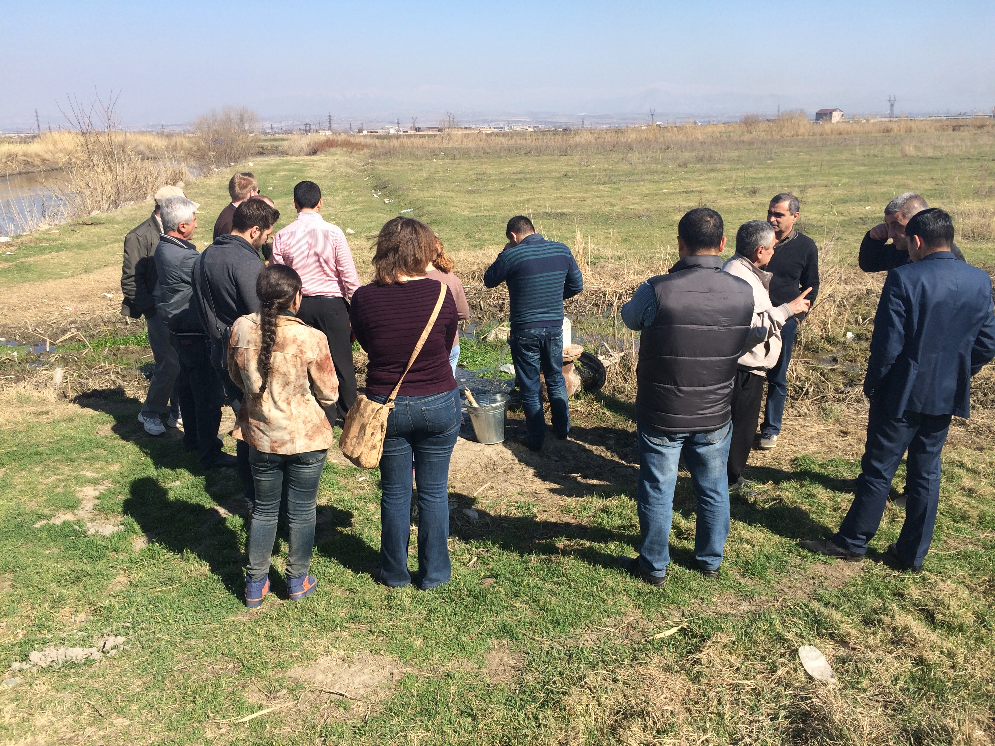 Field training by the U.S. Geological Survey (USGS) team within the scope of "Building Groundwater Management Capacity for Armenia’s Ararat Valley" project funded by the USAID.